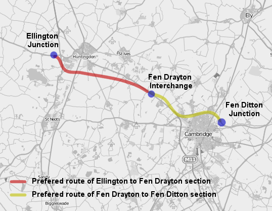 A map displaying the preferred route sections of the A14 Ellington to Fen Ditton road scheme. The new road section between Ellington and Fen Drayton is in red, and the road improvements section between Fen Drayton and Fen Ditton in yellow. Key interchanges are in blue. Overlaid on OpenStreetMap data.